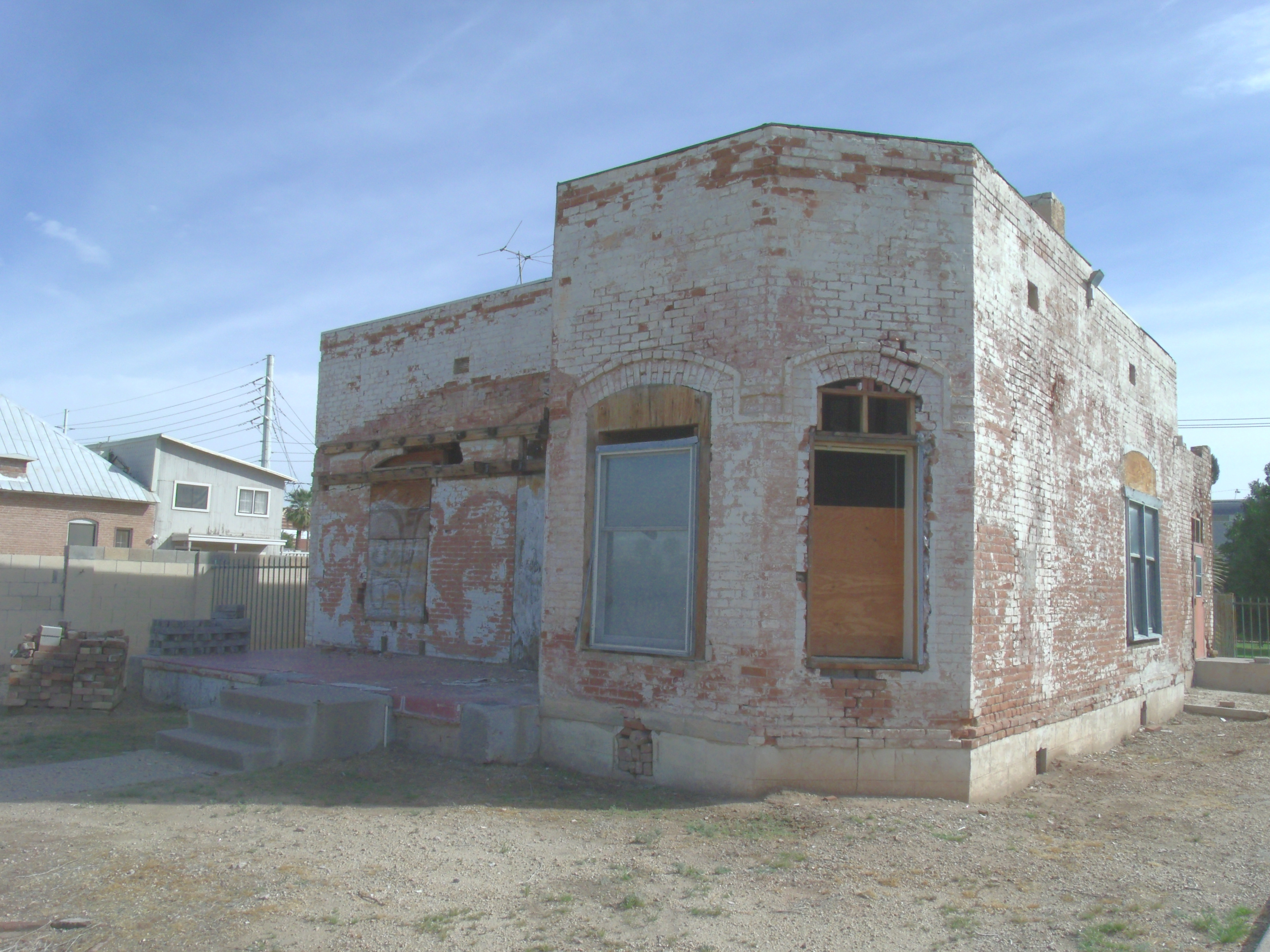 Phoenix-Clinton Campbell House-1875